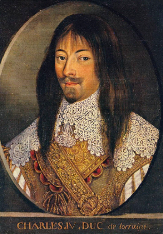 Charles IV, Duke of Lorraine (1604-1675)